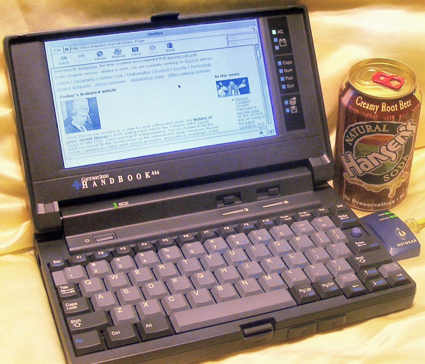 Picture of a Gateway Handbook 486 viewing the English-language Wikipedia main page as seen on the GPL-licensed Dillo browser. Here is the caption for this photo on the English Wikipedia: By using the Dillo web browser, it is possible to view web pages on a Gateway Handbook 486. It is also possible to run Firefox on the Handbook's screen, albeit slowly, by running the browser on another computer, and using the X Window System's ability to run an application over the network. A 12 ounce soft drink aluminium beverage can is included in the picture to give the viewer a sense of this computer's small size.